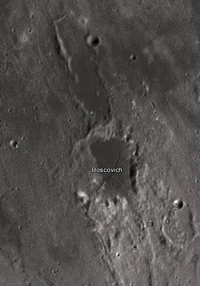 Boscovich lunar crater as seen from Earth with satellite craters labeled